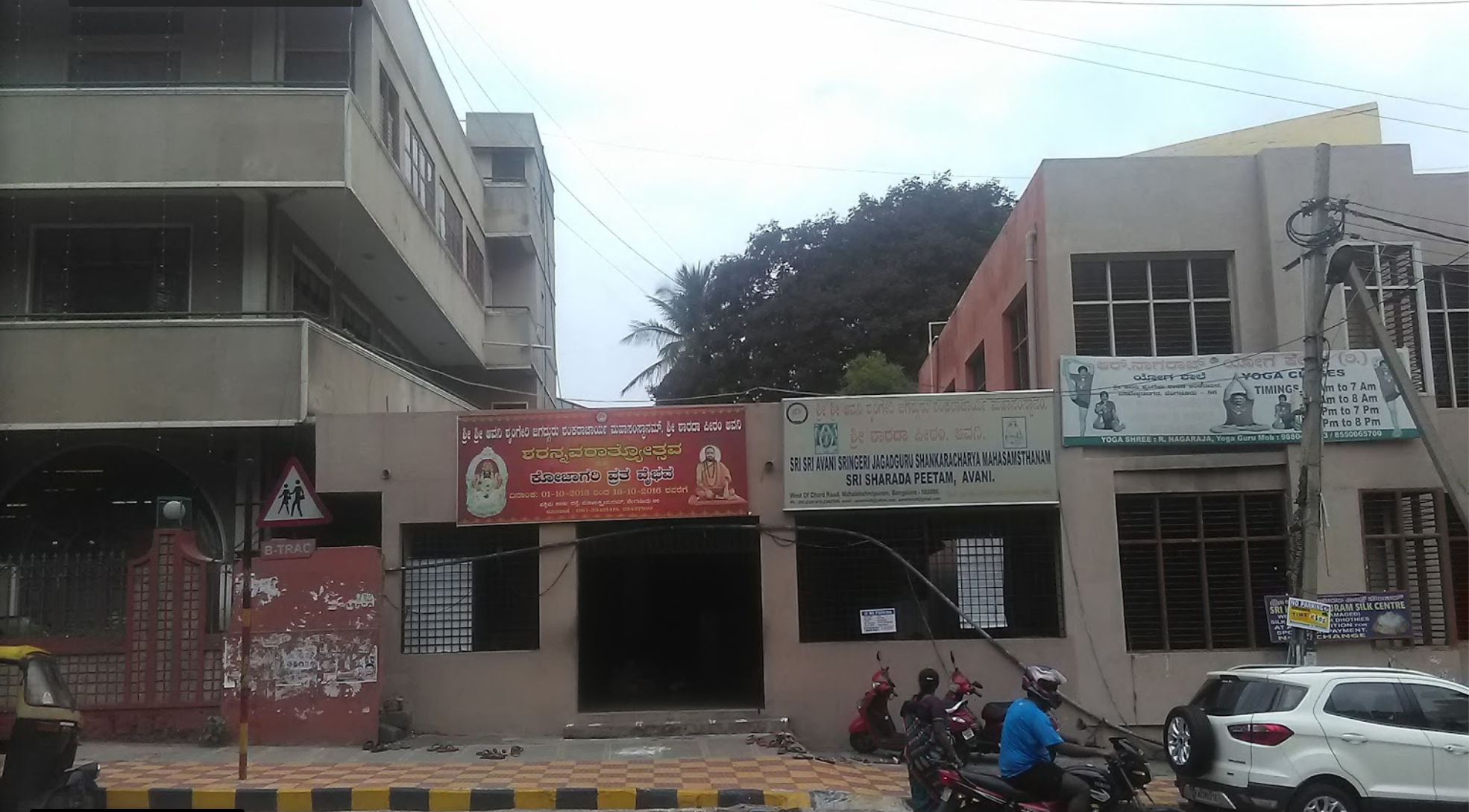 Avani Sri Shankar Mutt, Basaveshwaranagar, Bangalore